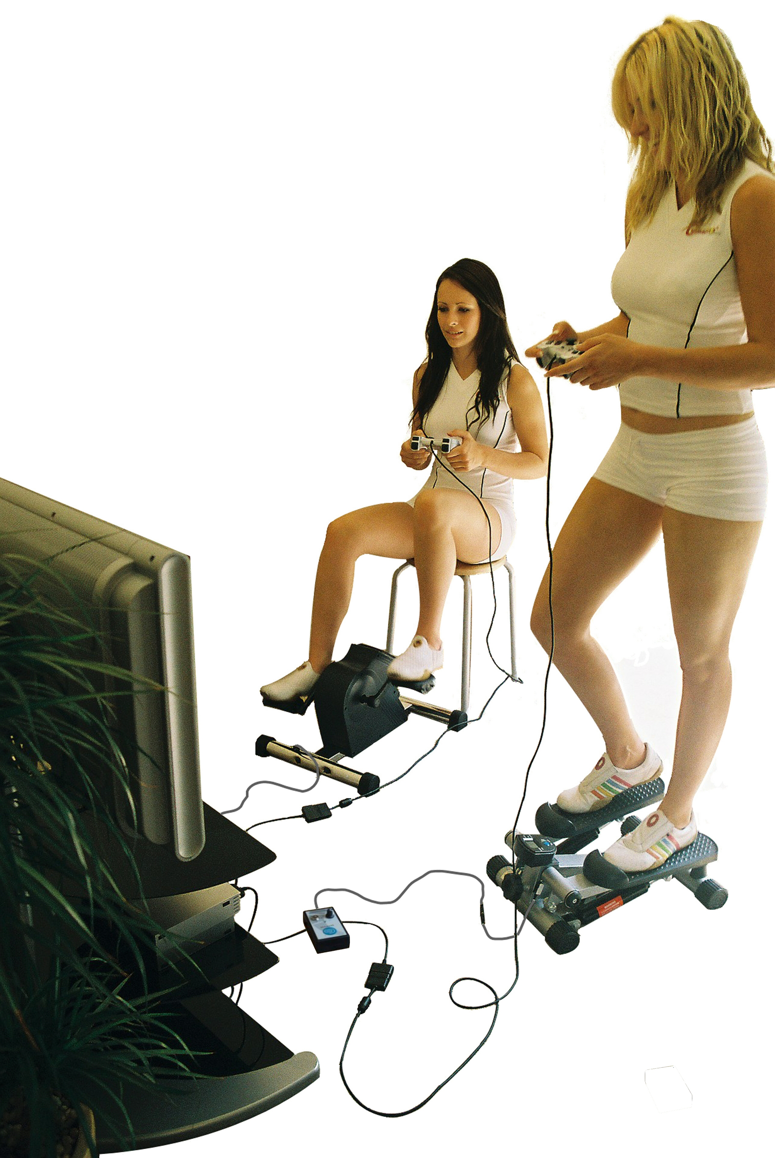 Playing a game on the PlayStation using Gamercize for working out at the same time.